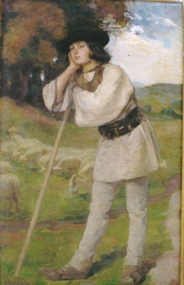 Ciobănaş (1907) - oil on canvas, 990x625 cm, signed Strambu and dated 1907. The painting is part of the Craiova Art Museum collection.